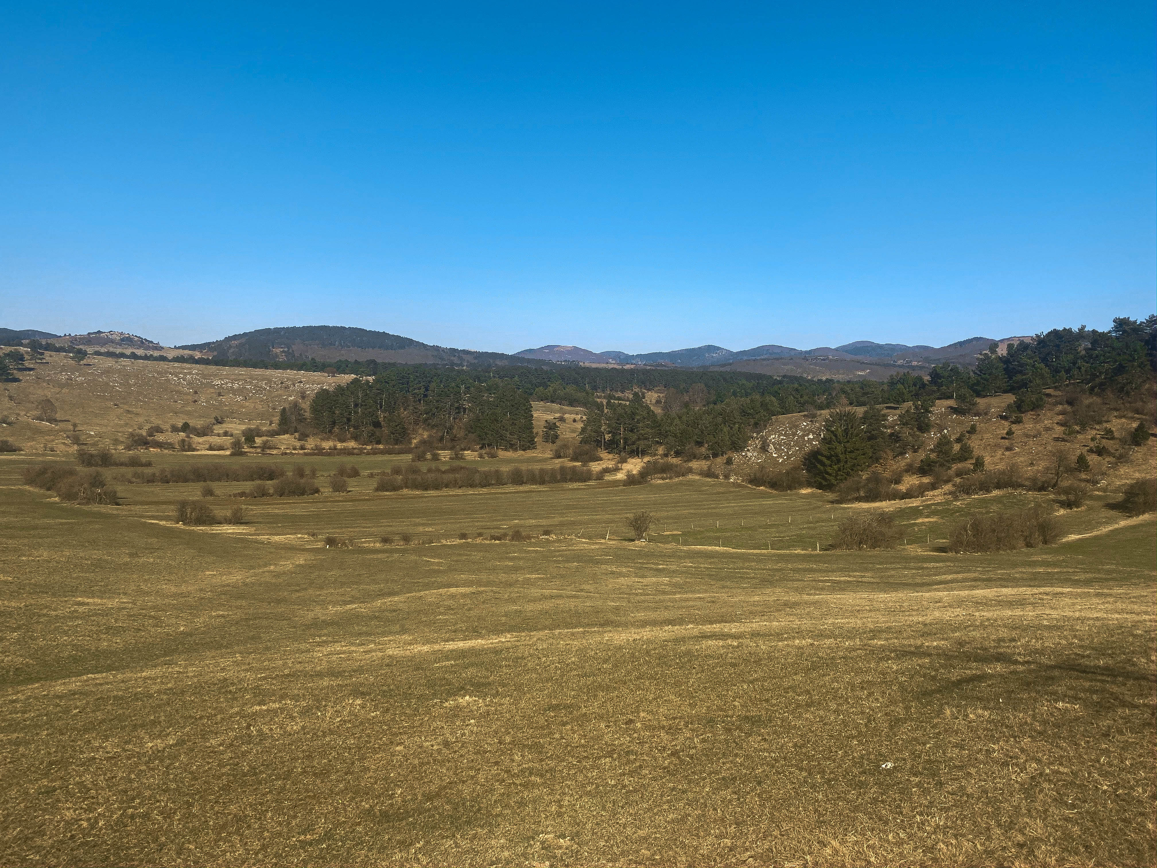 Presahnjeno Bačko jezero, slika proti vzhodu